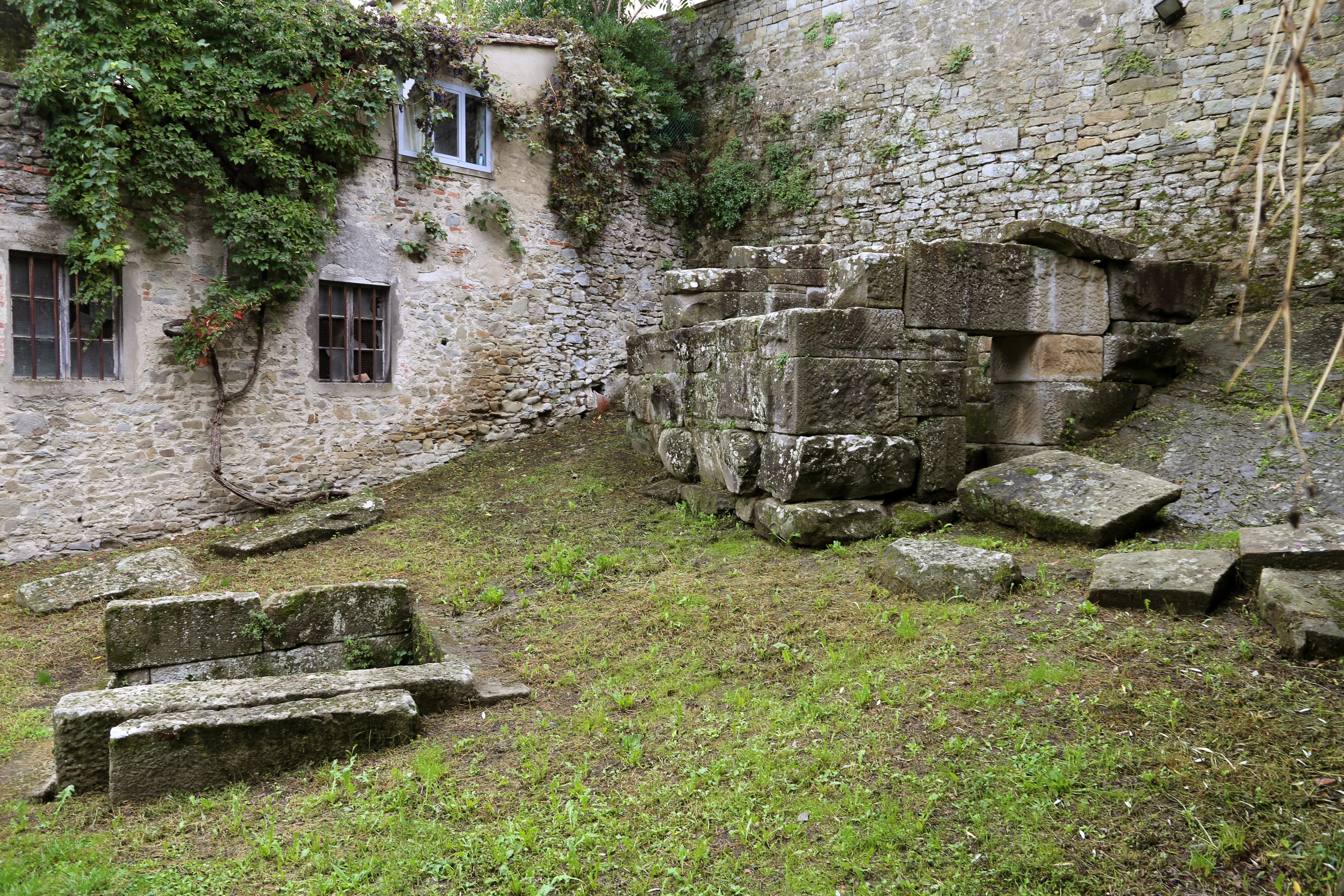 Fiesole miscellany